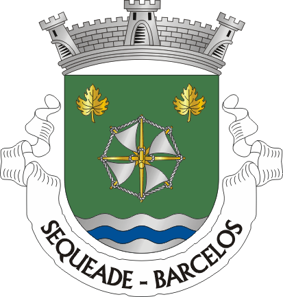 Crest of Sequeade, a parish in the municipality of Barcelos (Portugal)